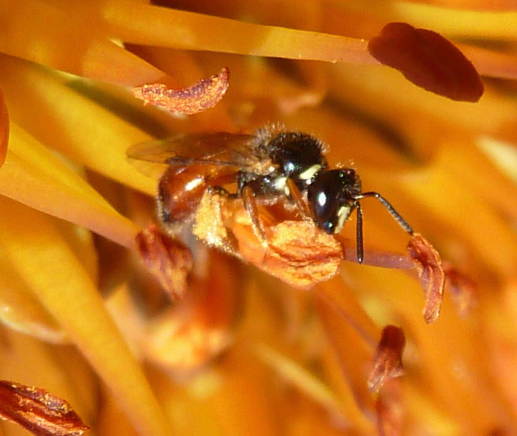 Allodapula sp. collecting Aloe pollen in the Pretoria National Botanical Garden